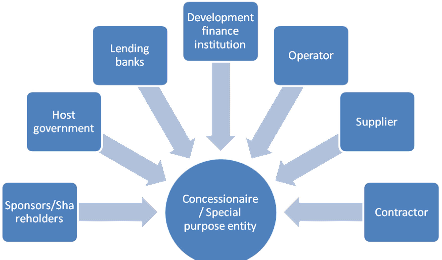 BOT